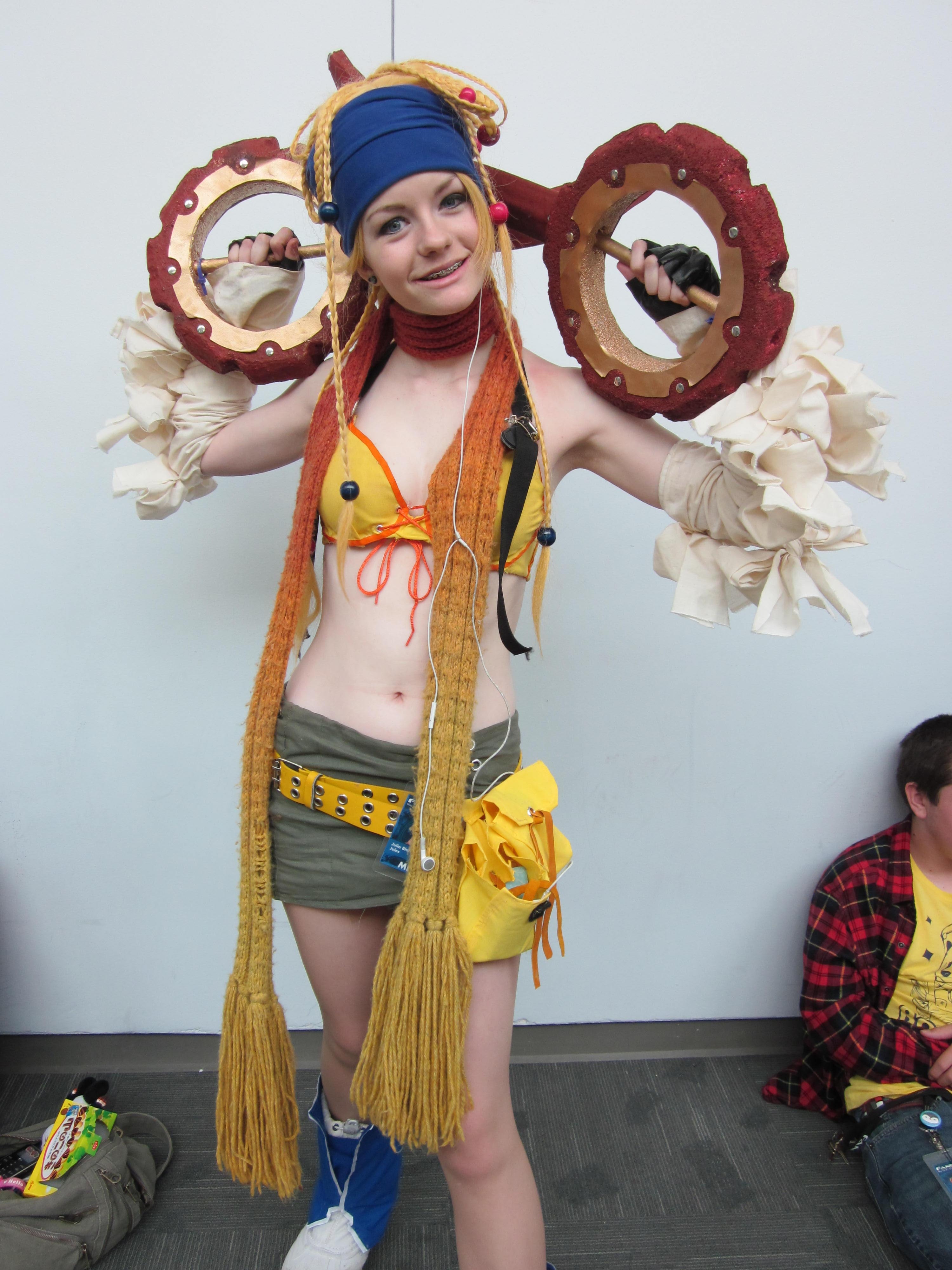 A cosplayer portraying Rikku from Final Fantasy X-2 at FanimeCon 2010 in San Jose, California.